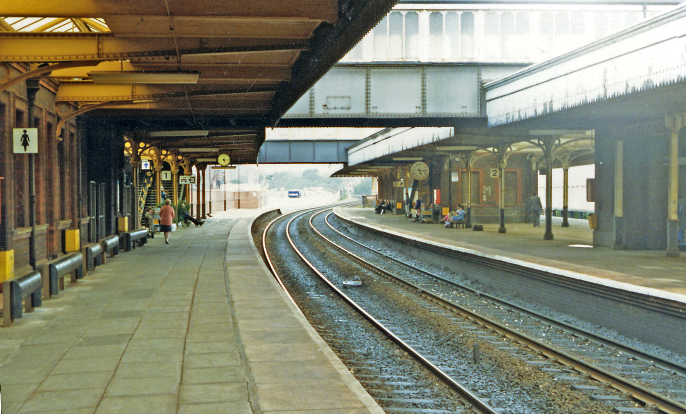 Colwyn Bay station. View westward, towards Llandudno, Bangor and Holyhead: ex-London & North Western Chester - Holyhead main line.